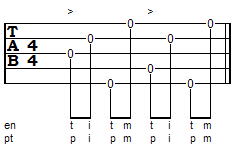 tablature of the basic roll: Alternate Thumb roll